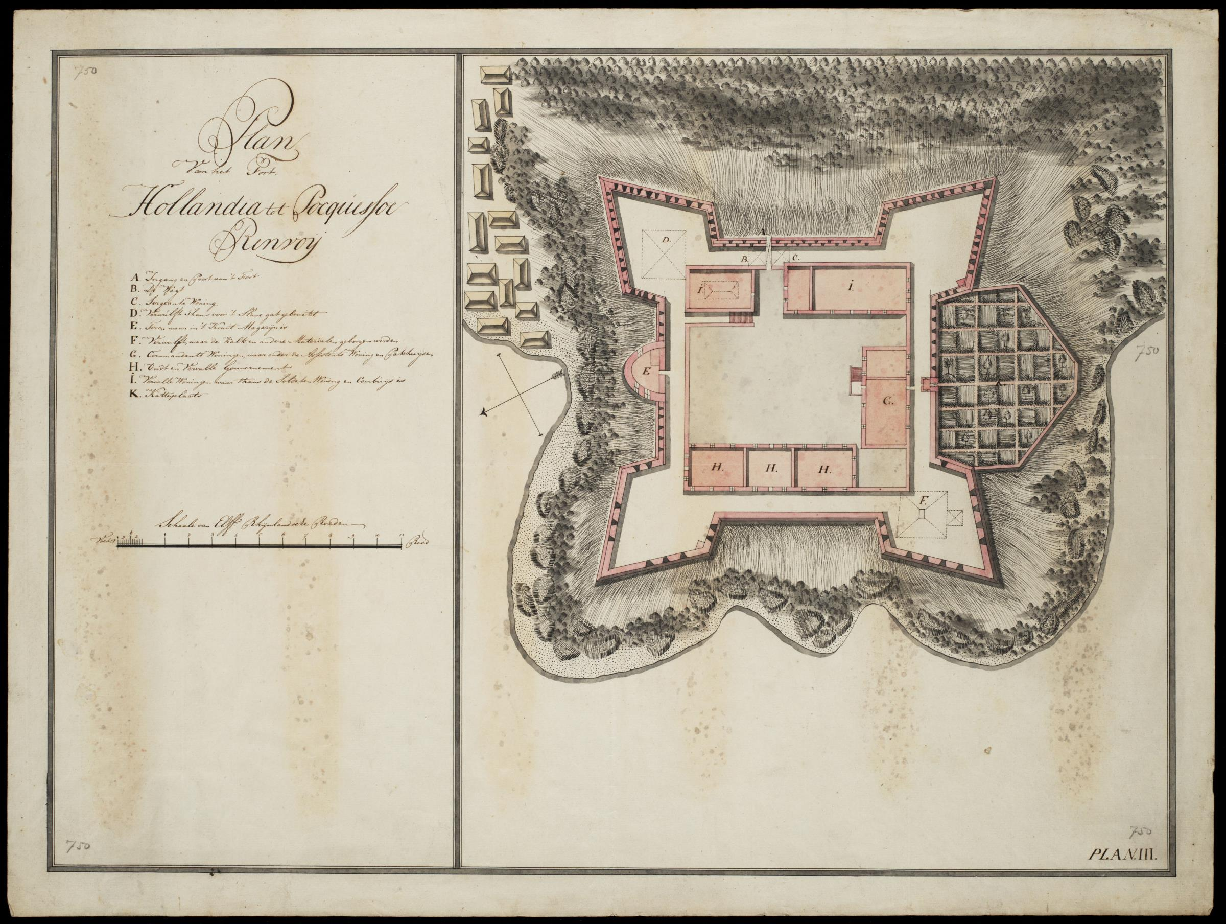 Floor plan of the Hollandia fort at Princes Town. Title in the Leupe catalogue (NA): Plan van het Fort Hollandia tot Pocquesoe. Plan van het Fort Holliandia tot Pocquissoe . Notes on the reverse: No. 13 Het Fort Hollandia. Register 8, Deel 1, Folio 33, Portefeuille .. [inscribed on a blue label] / 451 [printed in bold on a small label]. Key: A. Ingang en Poort van 't Fort / B. De Wagt / C. Sergeante Woning / D. Verwulft Thans voor 's Slave gat gebruikt. / E. Toren waar in 't Kruit Magazijn is. / F. Verwulft, waar de Kalk en andere Materialen geborgen worden / G. Commandants Woningen, waar onder de Assitents Woning en Pakhuijsen / H. Oudt en Vervalle Gouvernement / I. Vervalle Woningen waar thans de Soldaten Woning en Combuijs is / K. Katteplaats.